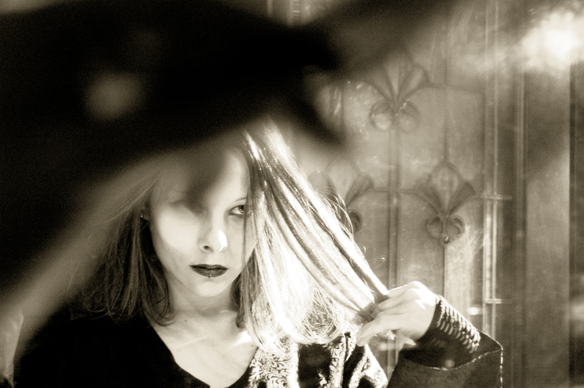 Ethereal Gothic girl